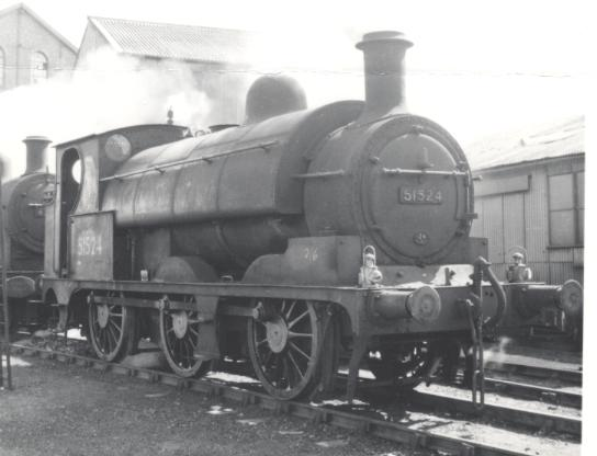 L&YR Class 23 Aspinall 0-6-0ST in operation at Fleetwood in 1958